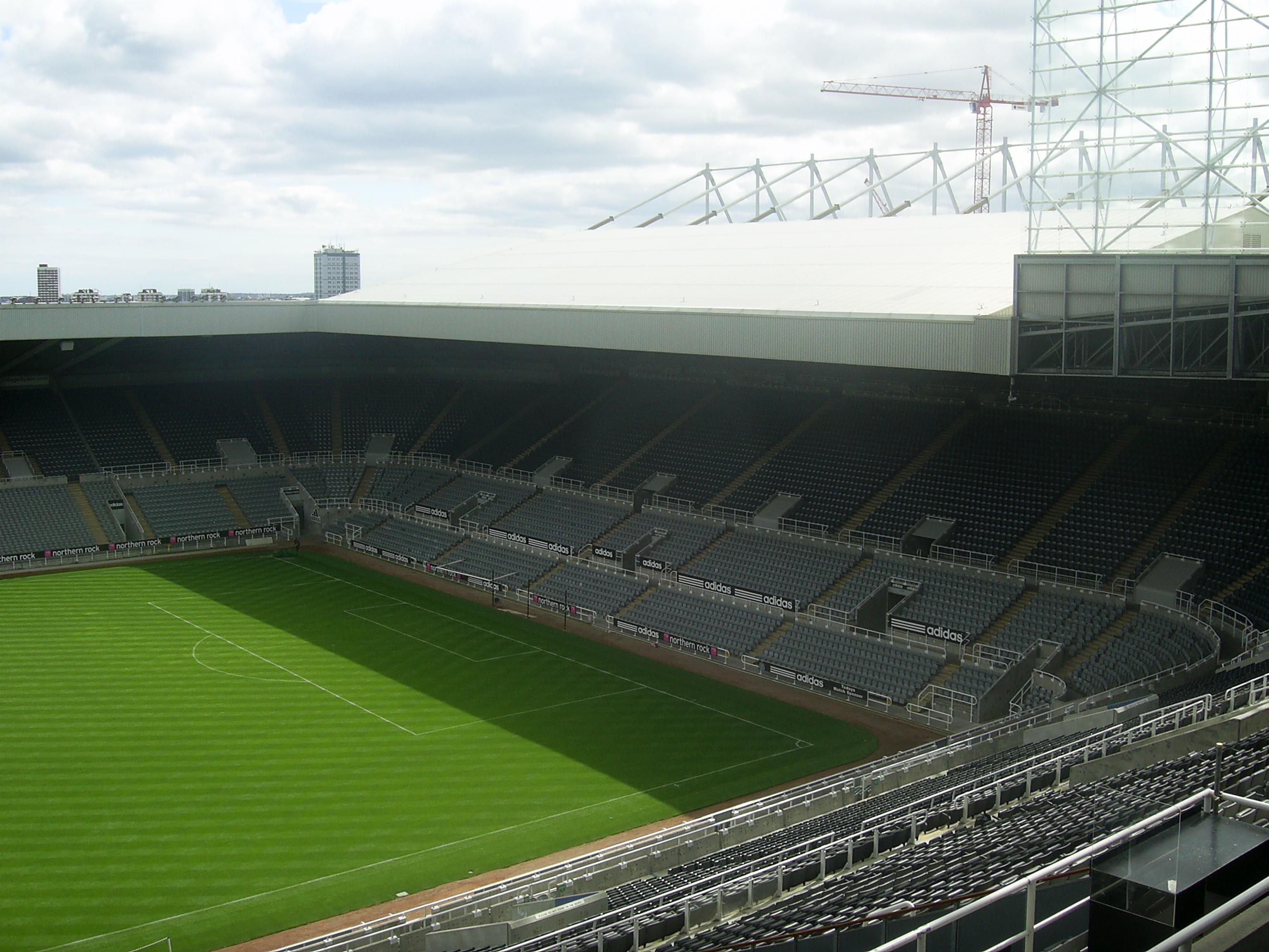 View of the South Stand of St James' Park from the executive seating